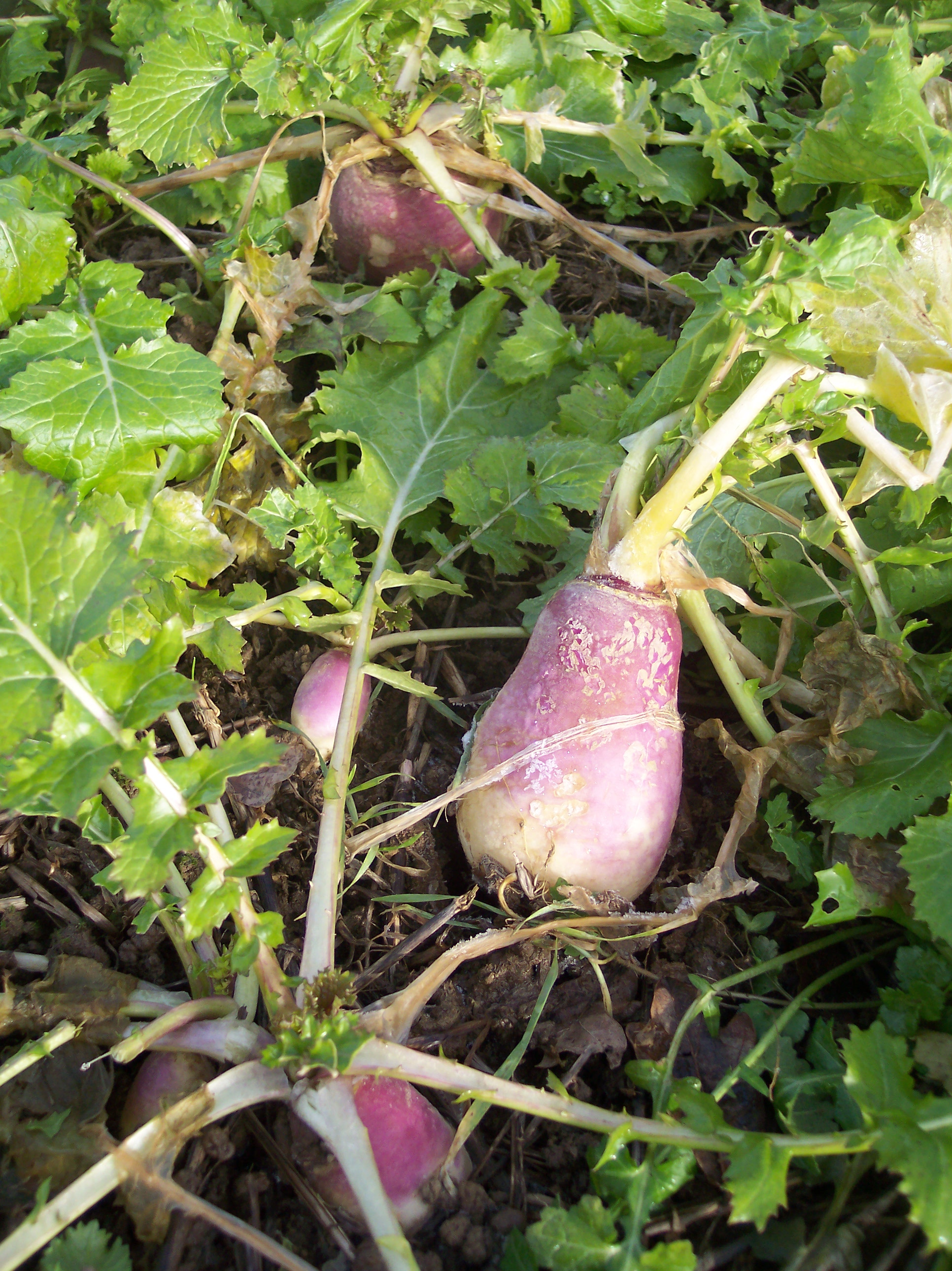 Stubble Turnips (Brassica rapa subsp. rapa) near the River Medway. Was unsure what this is? Until a discussion on Geograph discuss forum identified it as a Stubble Turnip (Thanks 4WD !) See also [1] more info on turnips!